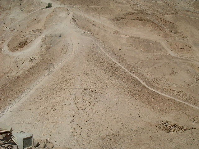 Author: G.Solomon Source: own photo Keywords: Masada